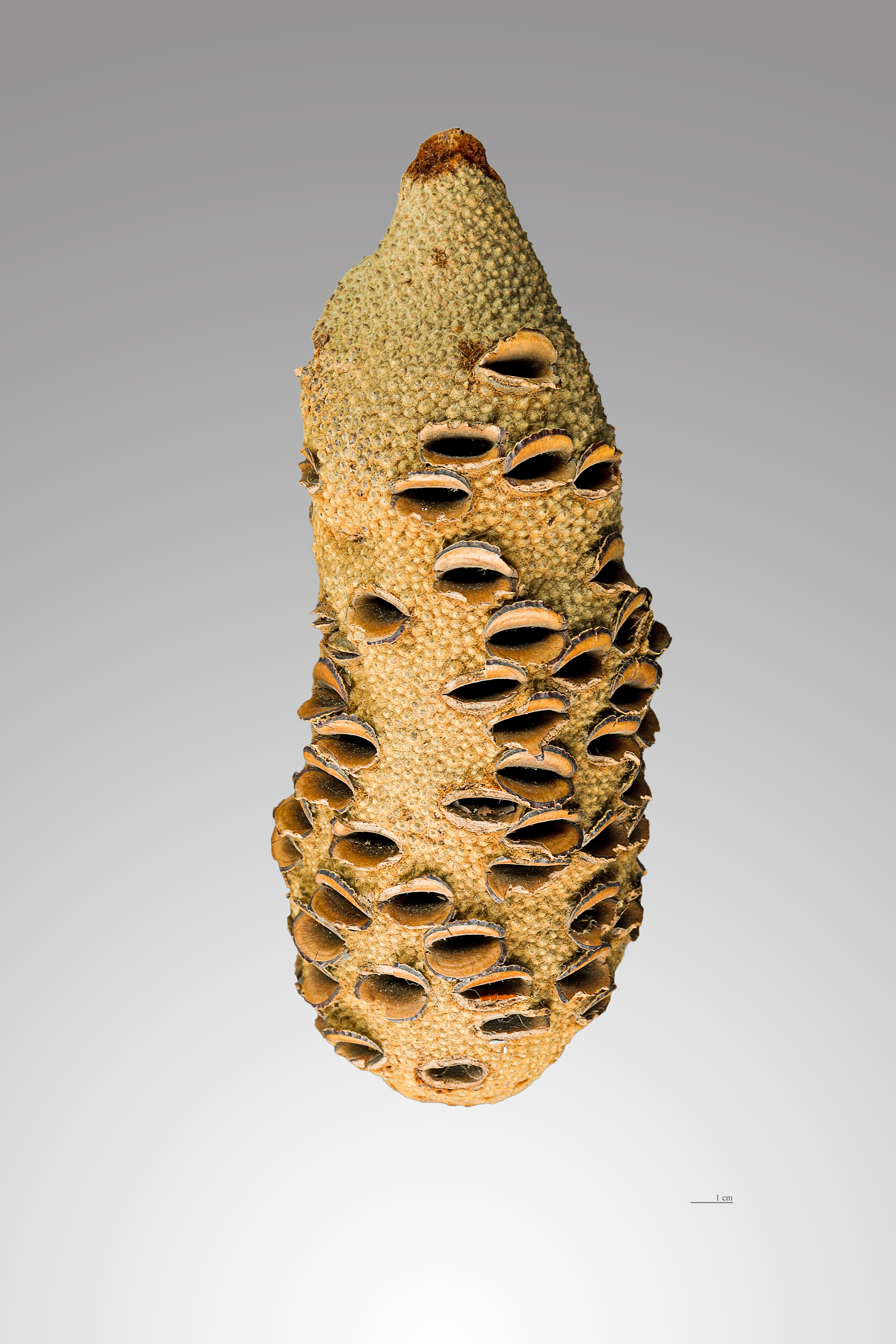 Follicle of Mangite.